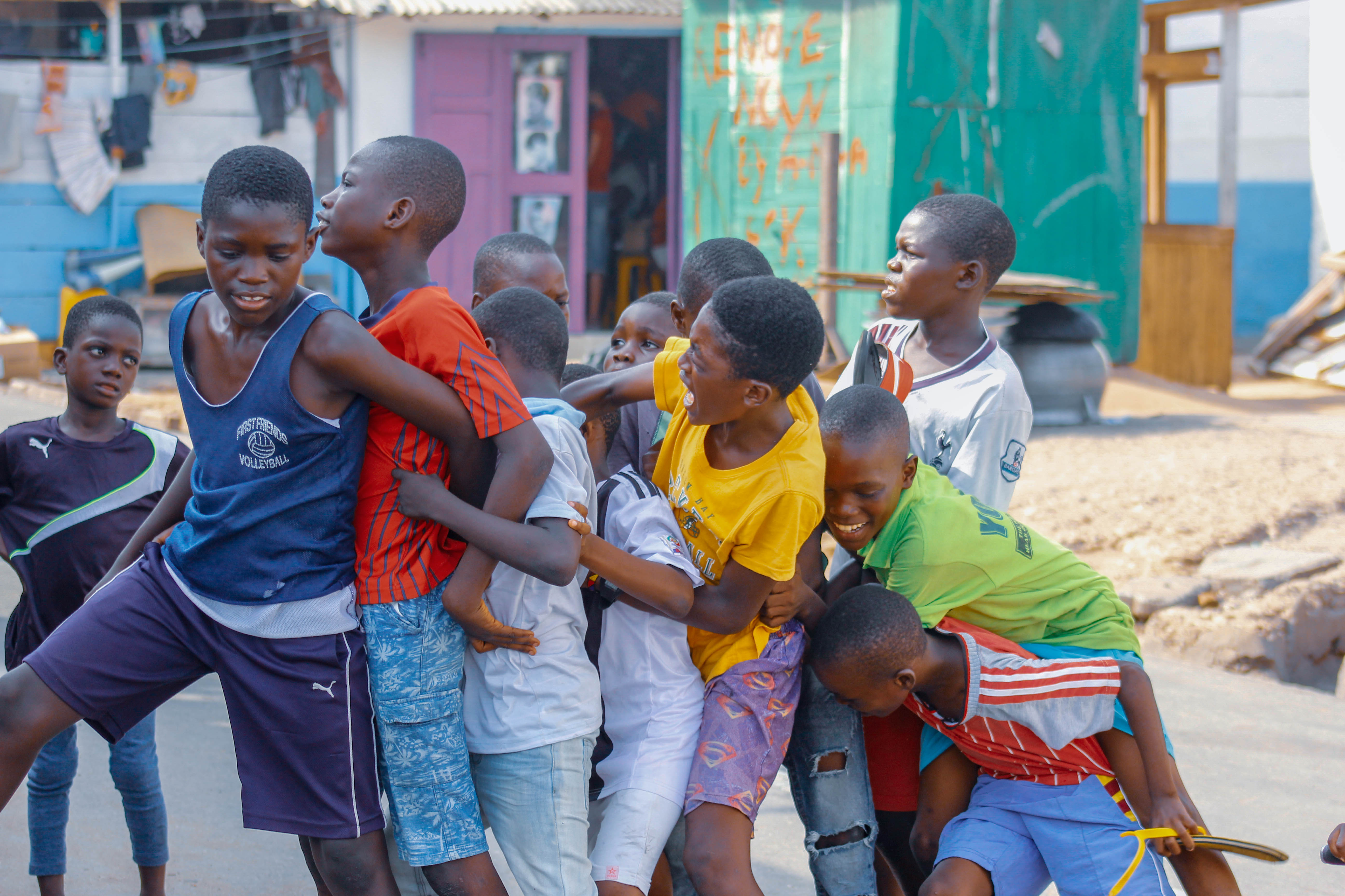 A Ghanaian game similar to hide-and-seek The Pilolo game is played by two or more children. The higher the number, the increase in excitement and zeal to win. An object like a stick is mostly used and the number of sticks to use is dependent on the number of children. A non-participant hides the sticks while the participants have either closed their eyes or not in the same location. The non-participant then shout out "pi-lo-lo", the participants then run from their hideout to search for the item. A finish point is indicated where they must send the stick to be a winner. One needs to be smart, observant and skilful to detect where the item has been hidden. The first person that sees it secretly runs to the finish point before alerting the others after a hard time trying. It is then recorded as they reach the finish point. There is an excitement after being the winner. It can be played multiple times